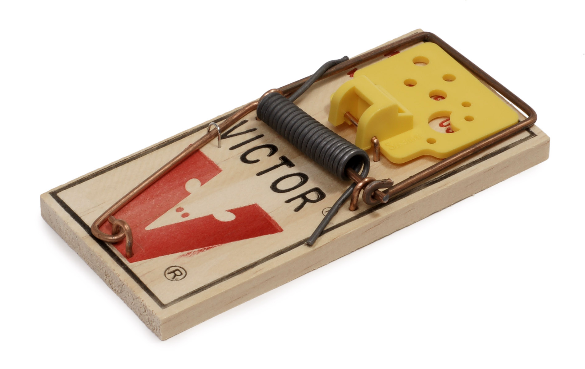 A Victor brand mousetrap. This is unset and still has its trap bar stapled down. Though the cheese-shaped trap lever is slightly different, it remains relatively unchanged from mouse traps decades ago.